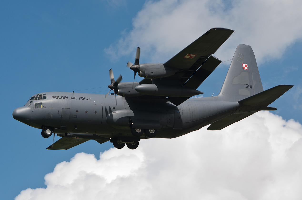 C-130 Poland